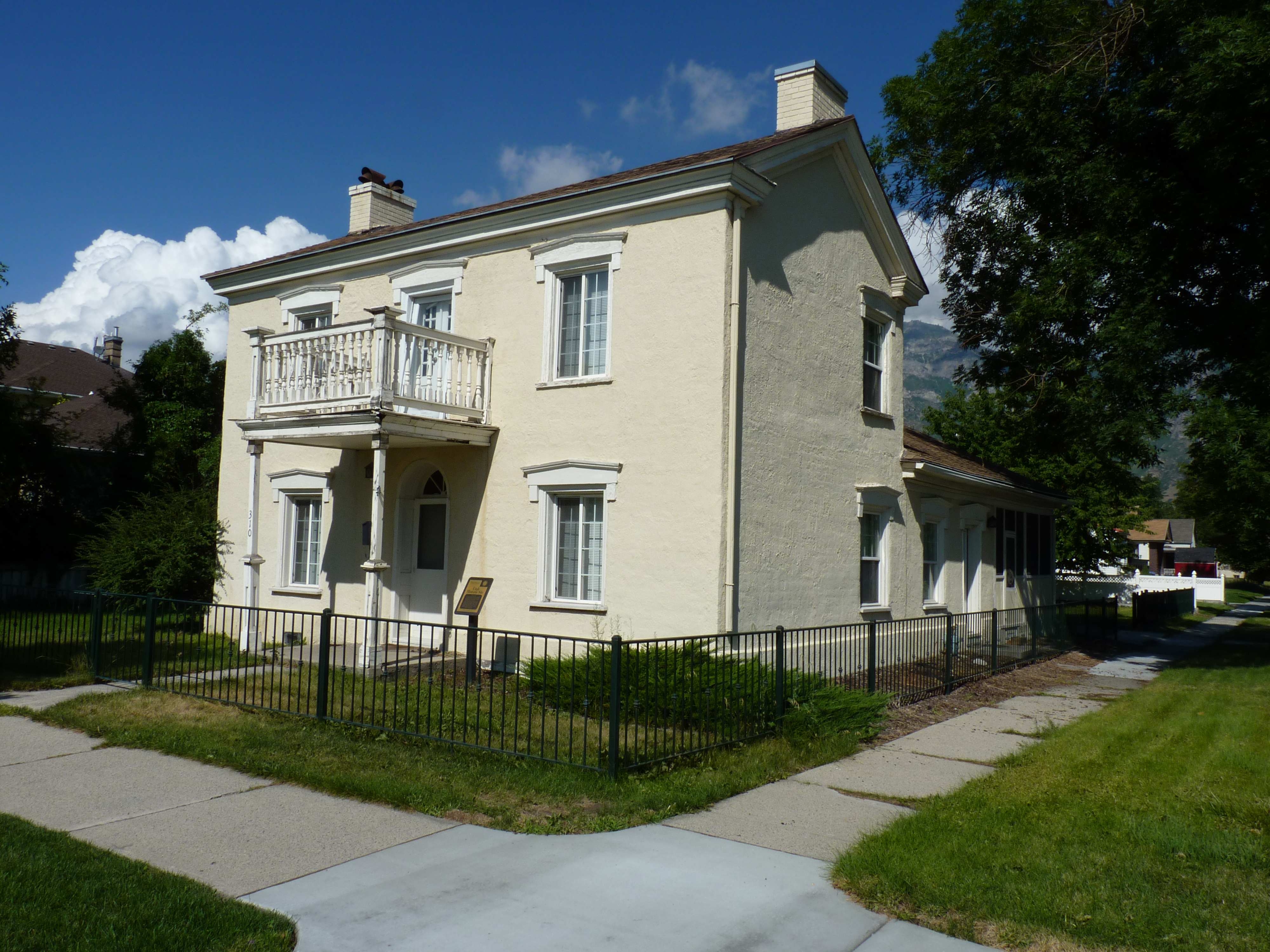 Thomas Taylor House 342 North 500 West Provo, Utah